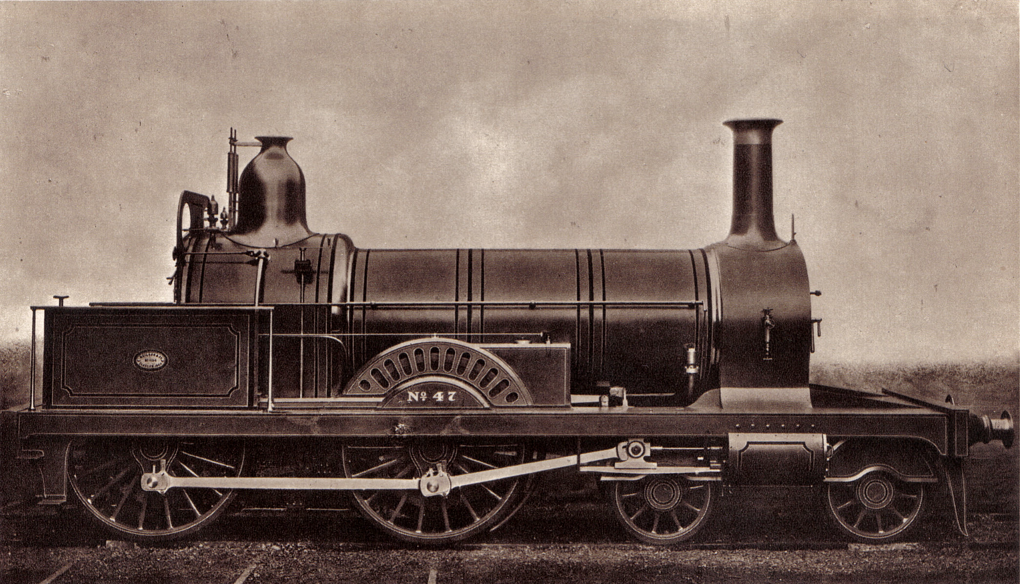 GN of SR Locomotive No. 47 Class "K" as originally built. The Great North of Scotland Railway had six of these locomotives built by Neilson and Company in 1866. No. 47 was withdrawn in 1921.